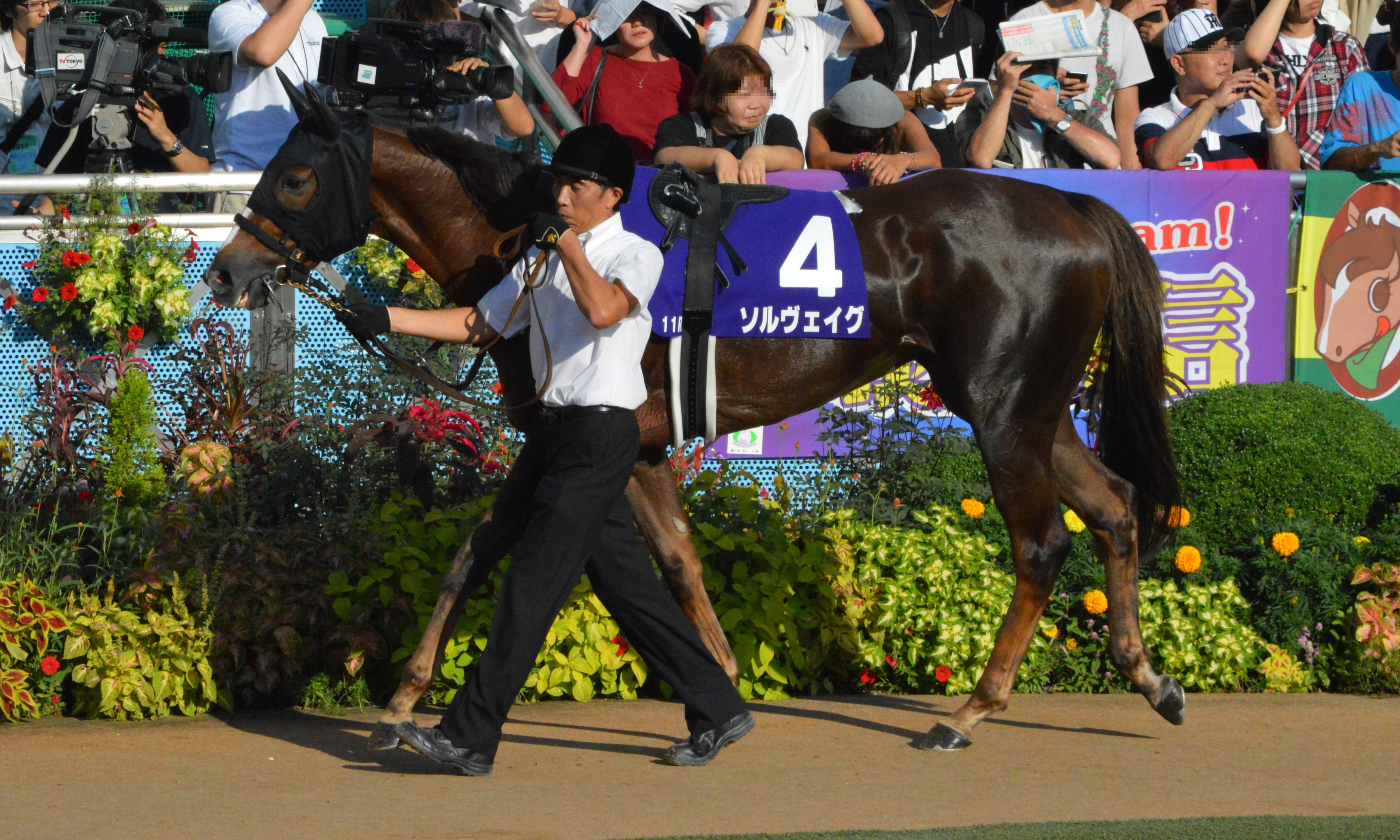 Japanese race horse Solveig at Nakayama racecourse. Nakayama (JPN) 2 Oct 2016Sprinters Stakes (Grade 1) (3yo+) (Turf) 6f Firm RankHorse NameOddsAgeWgtJockeyTrainer1stRed Falx (JPN)41/5H59-0Mirco DemuroTomohito Ozeki3rdSolveig (JPN)26/1F38-5Hironobu TanabeIppo SameshimaOthers are omitted. (16 horses entered in a race.)